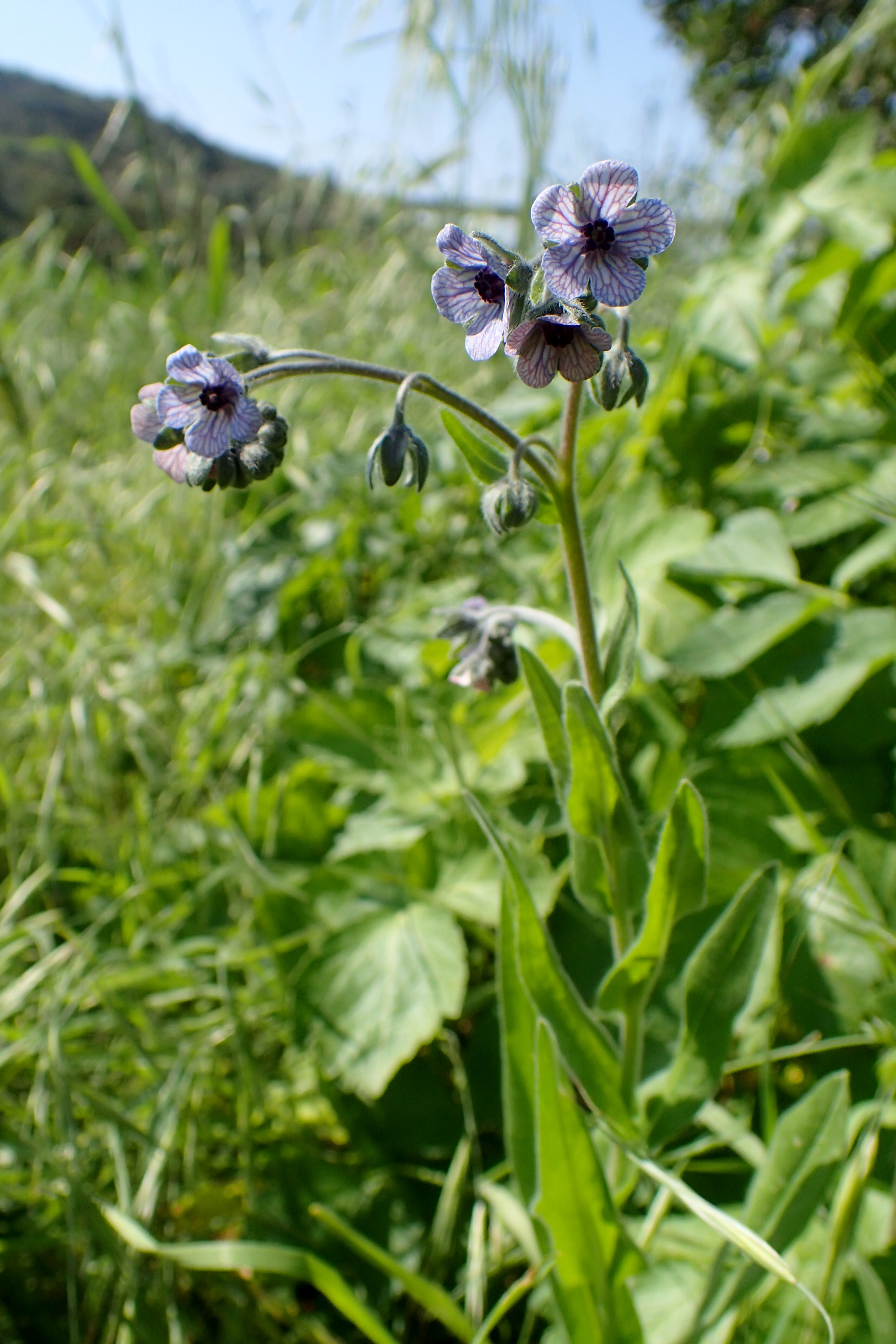 Cynoglossum creticum in Paramali, Cyprus